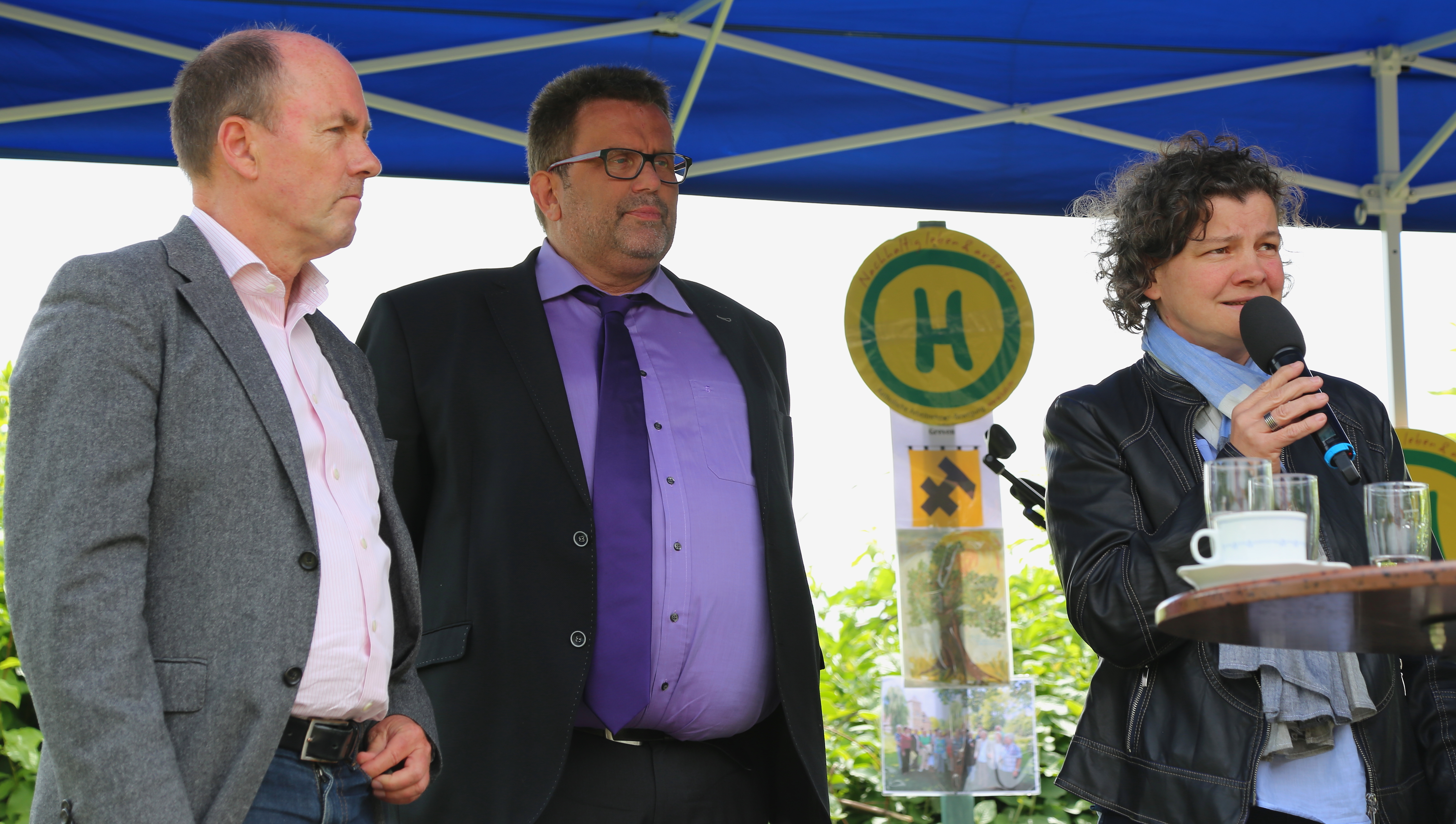 2015 Family Day of the Katholische Arbeitnehmer-Bewegung (KAB) Nordmünsterland at Wigger Farm (Kinderbauernhof Wigger) in Greven, Kreis Steinfurt, North Rhine-Westphalia, Germany. Talk about the sense of life with, among others, (from left to right) Thomas Kubendorff (Landrat of Kreis Steinfurt), Peter Vennemeyer (mayor of Geven) and Annette Saier (host).